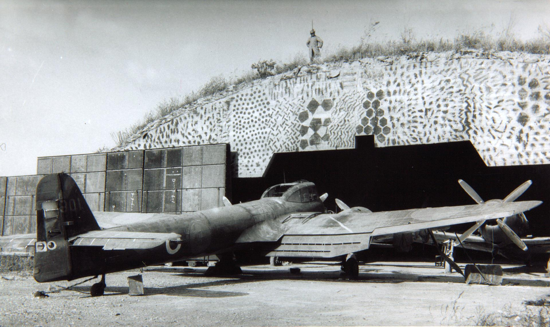 Kyushu Q1W Tokai maritime reconnaissance aircraft 2